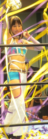 Japanese professional wrestler, Mio Shirai. Aug 30 2015, Ice Ribbon Korakuen Hall.